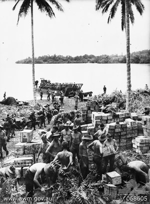 New Guinea, Finschhafen area, 1943-10-30. A transport company stack stores which were dumped during the night at a spot near Scarlet Beach. Recently three Japanese barges landed at Scarlet Beach, two were sunk and the other claimed as sunk off the shore. Fifty eight Japanese dead were counted.